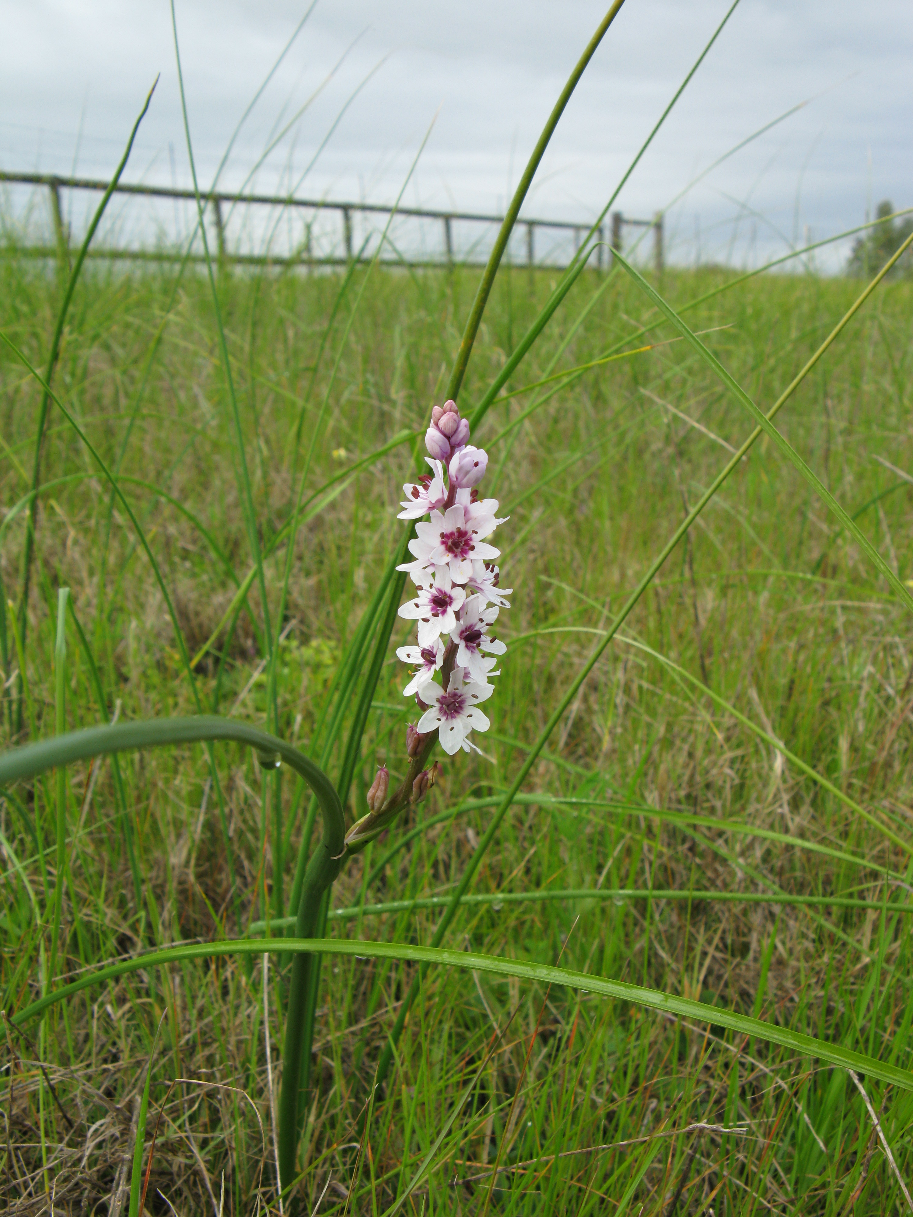 Plants near Hermon in Western Cape. The genus used to be called Dipidax, and then Onixotis.